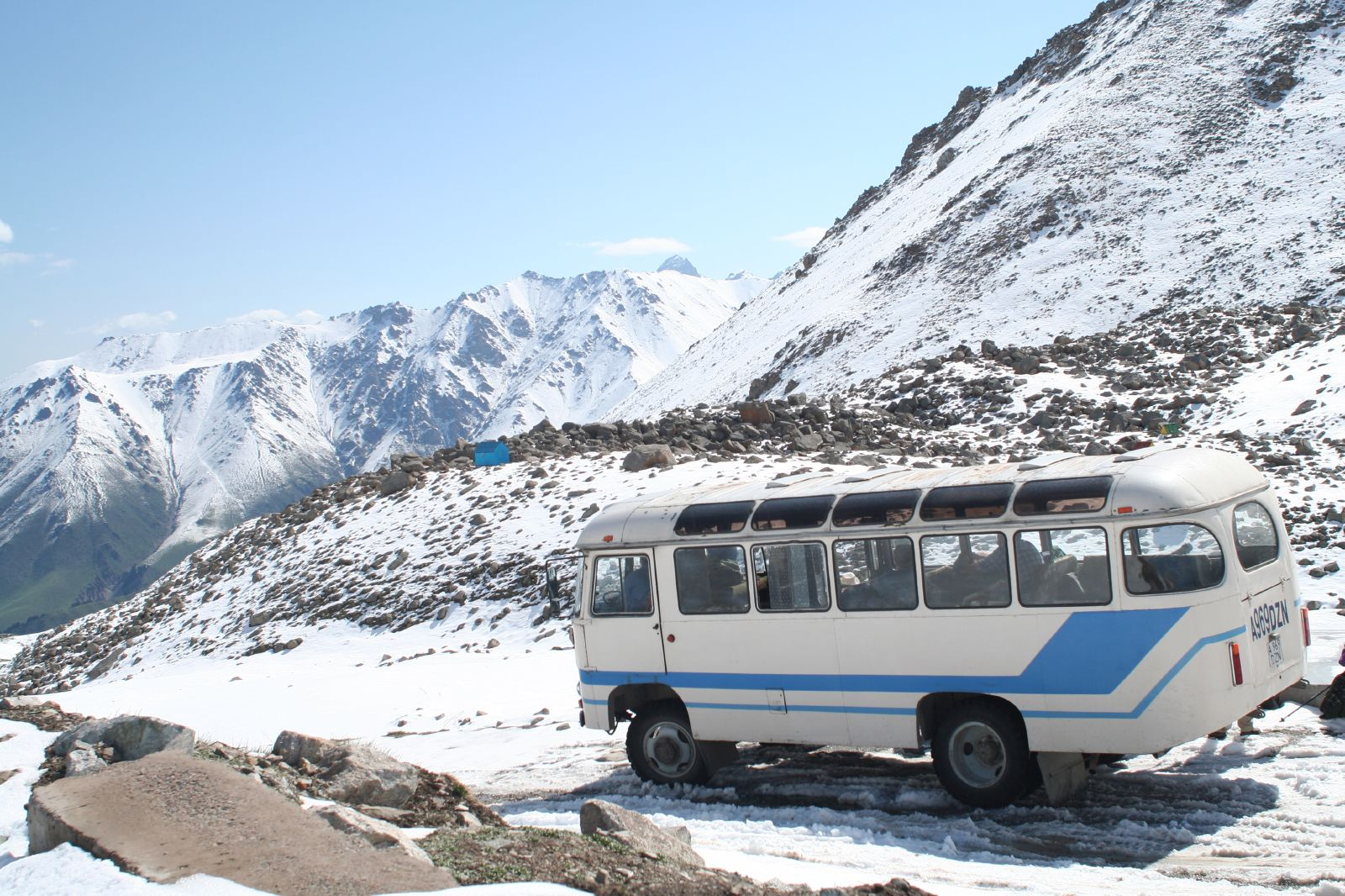 Bus in Kazakhstan.